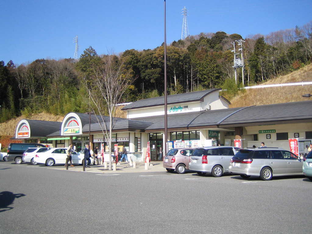 Akatsuka parking area (赤塚パーキングエリア), in Toyokawa, Prefecture|Aichi, Japan